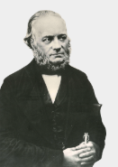 John Bradbury Robinson (1802-1869), founder of Robinson and Sons of Chesterfield